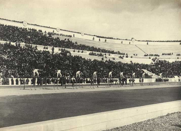 German team at parallel bars during 1896 Summer Olympics